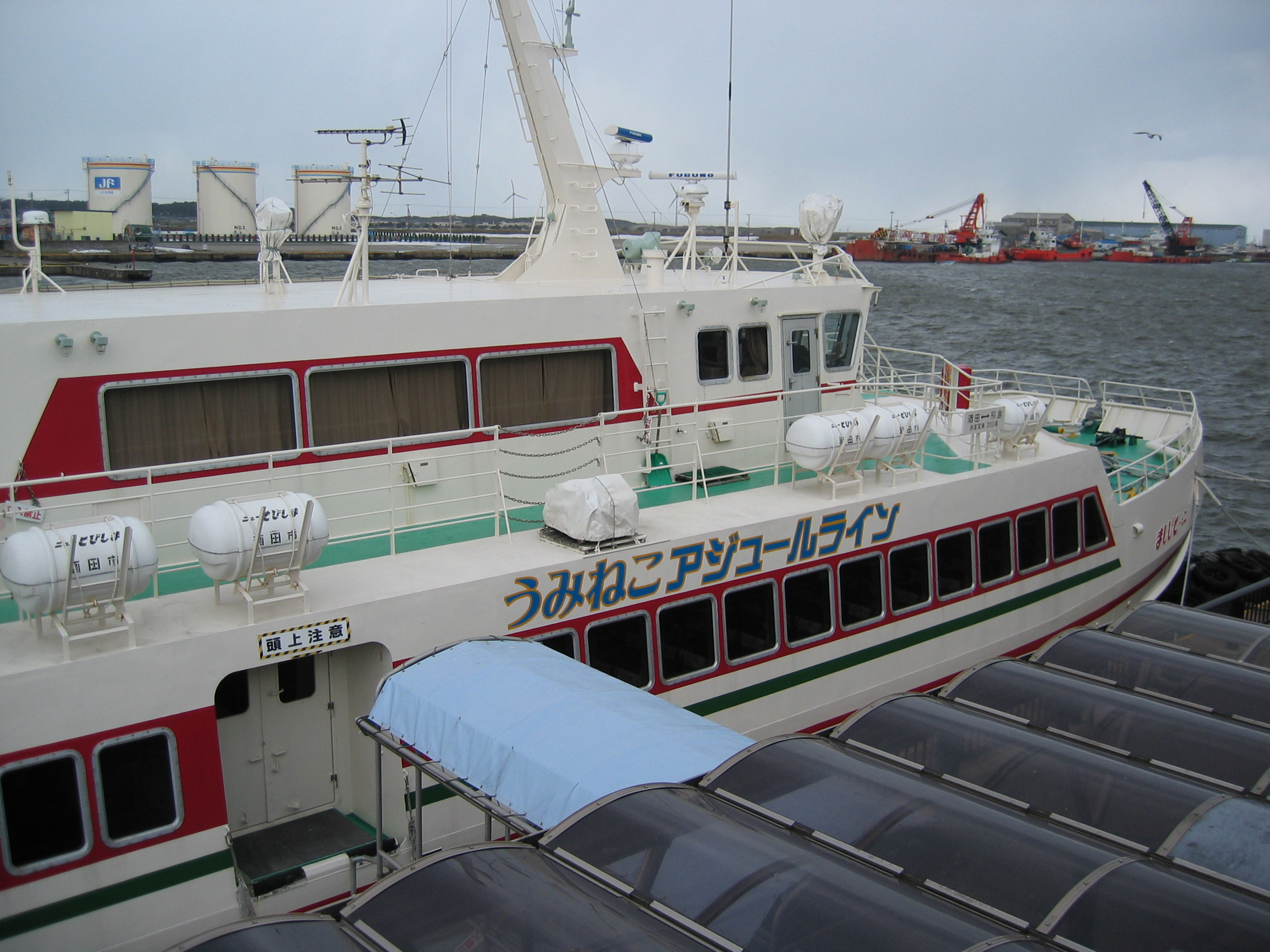 NEW TOBISHIMA IMO Number: 8824543 Callsign: JF2117